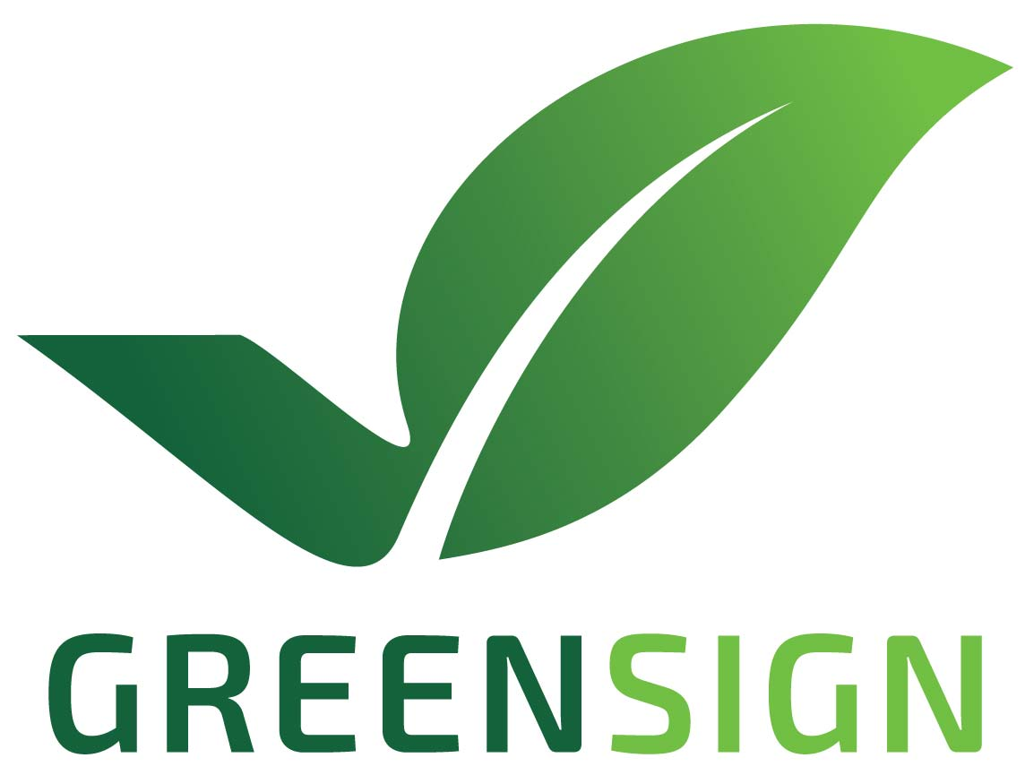 The picture presents the Logo of the Certification of sustainable Hotels named GreenSign. When the Certification is awarded to a hotel the respective level is added underneath.